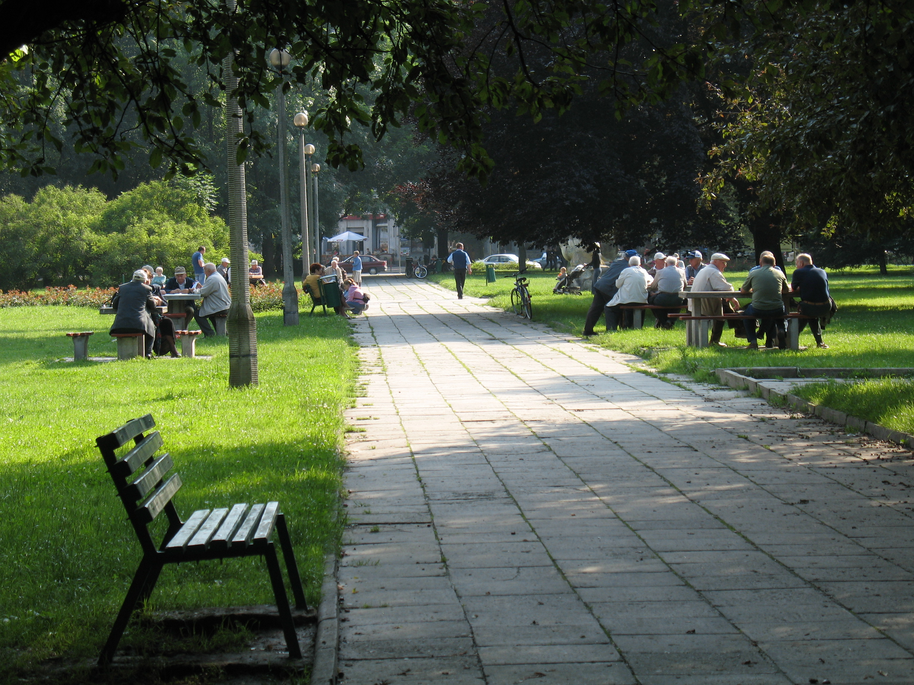 Chess players in Park Ratuszowy (Town Hall Park), Kraków-Nowa Huta, Poland